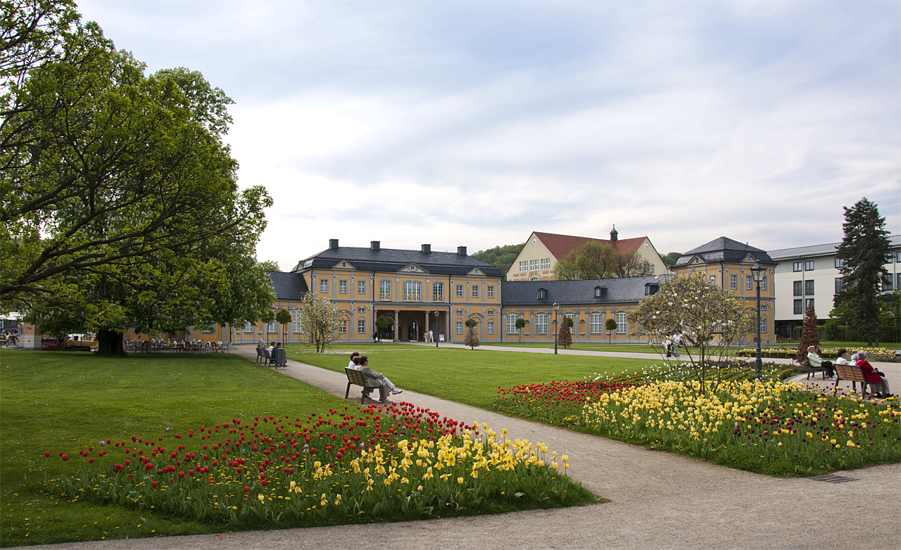 Orangery in Gera